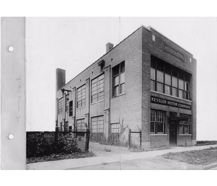 7.5x9.5 black and white photograph of the Kessler-Detroit Motor Company factory